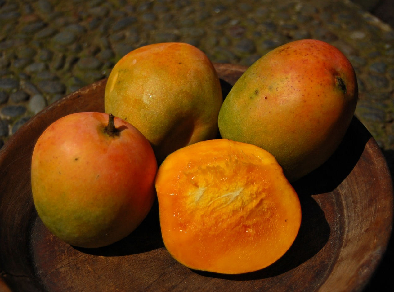 Mangga gedong gincu, a cultivar of mango, Mangifera indica, from Tomo, Sumedang, West Java, Indonesia.